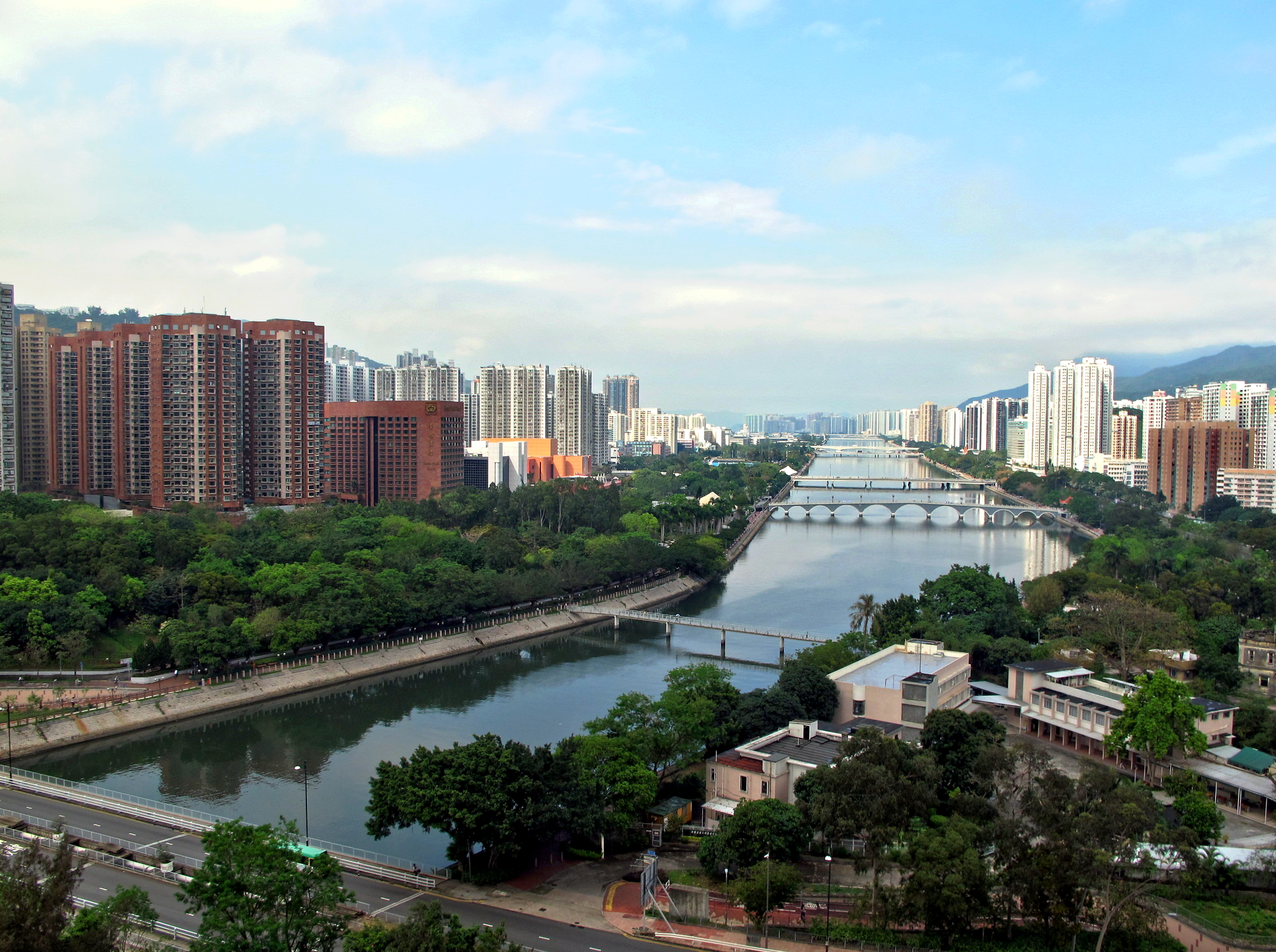 HK Shing Mun River